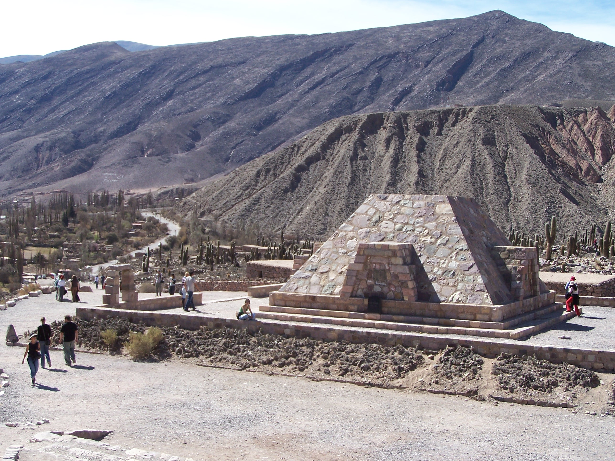 Top of Tilcary with monument